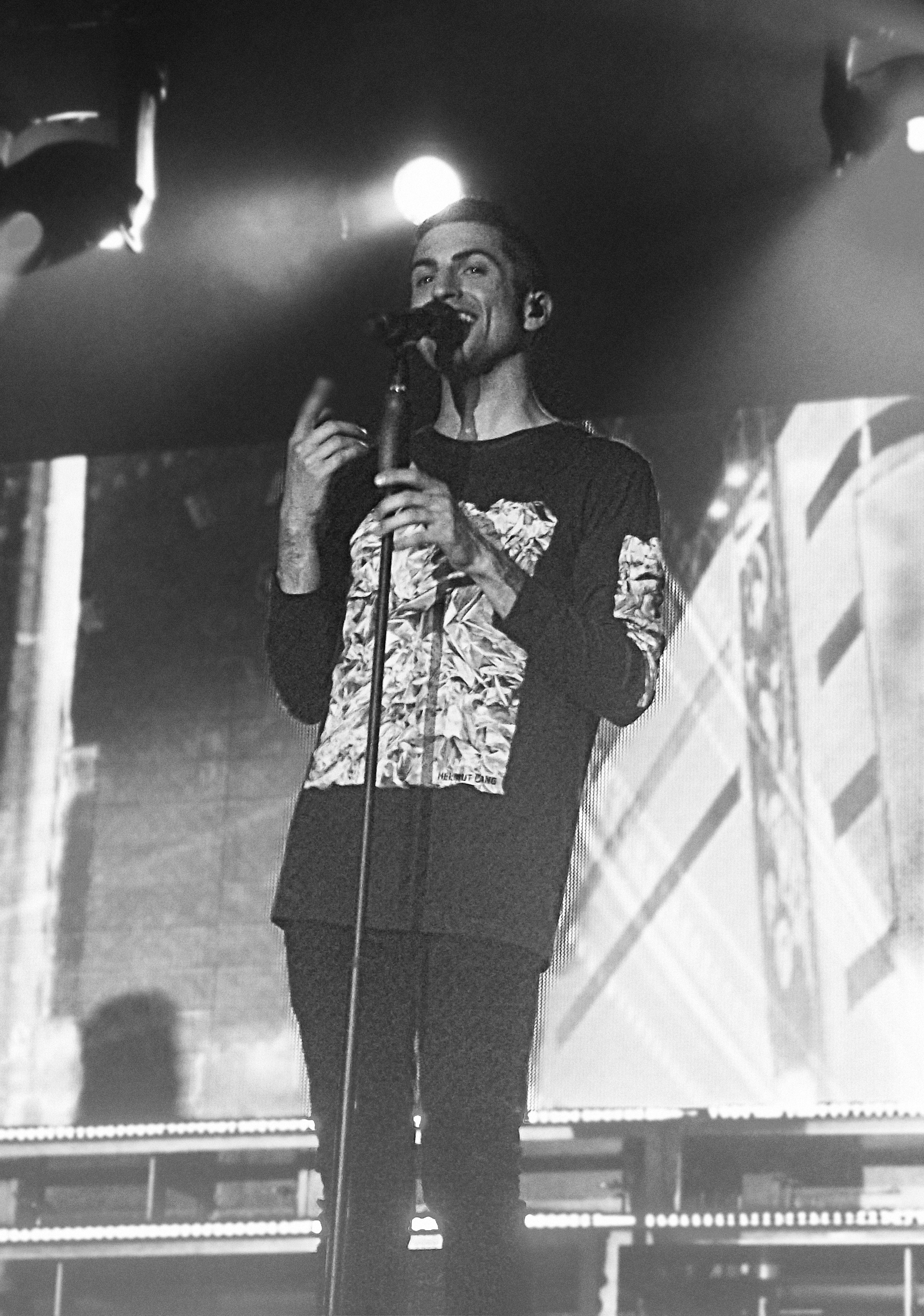 Mitch Grassi performing in Barcelona, 2015